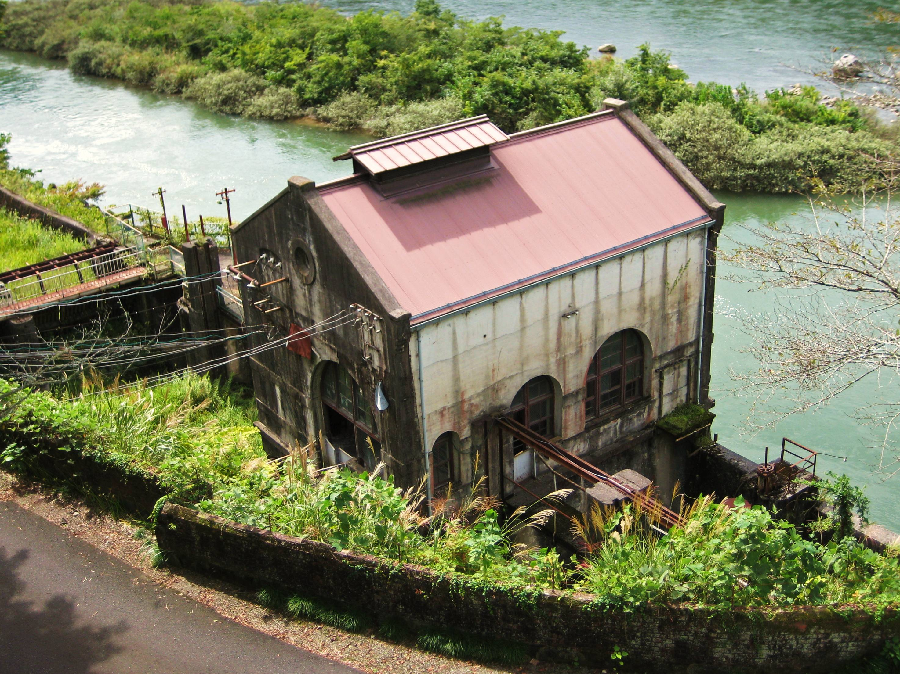 Yaotsu secondary power station (in Yaotsu Old Power Plant Museum).